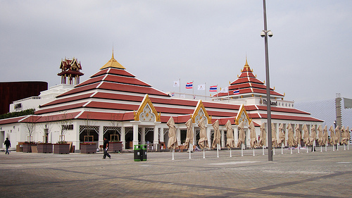 the Thailand pavilion of Shanghai expo2010.